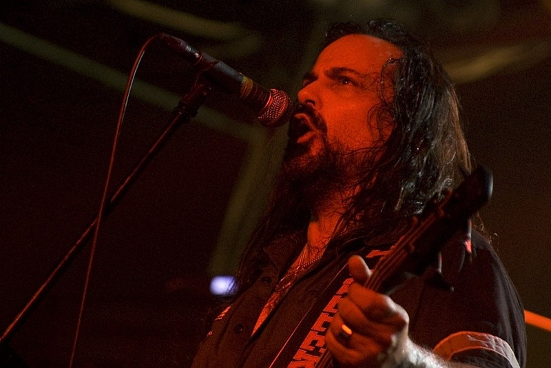 Winterfest 2009, Deicide, Warszawa, Progresja, 22.01.2009